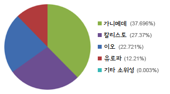 Korean version of file Masses of Jovian moons.png.